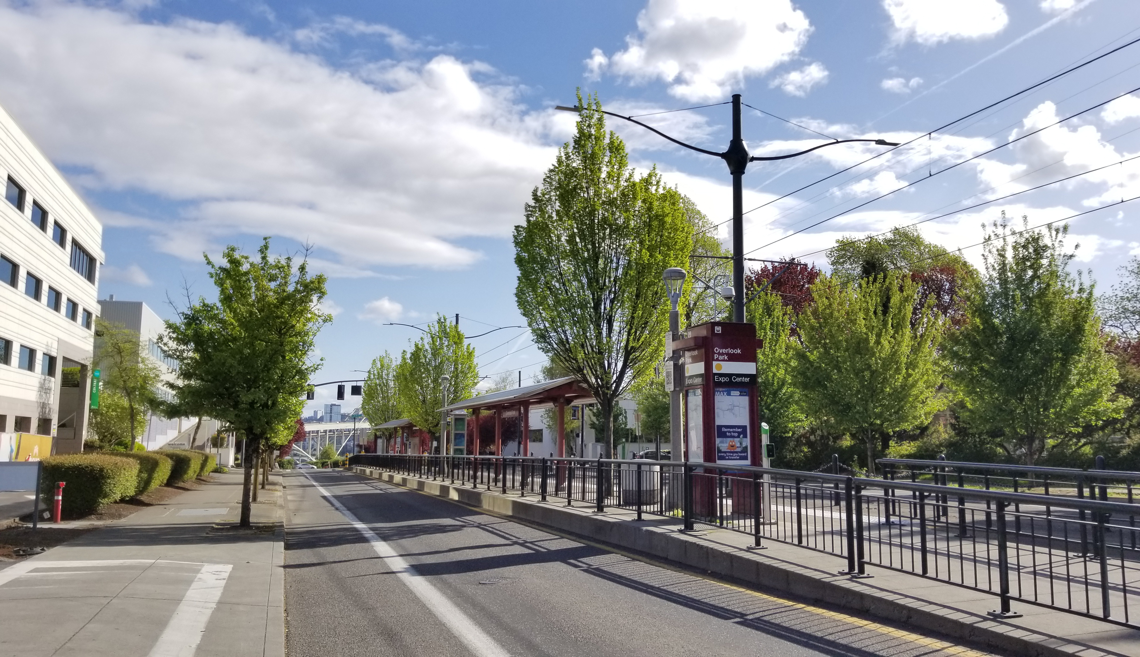 The northbound platform of Overlook Park station in Portland, Oregon facing south. The station occupies the Interstate MAX segment of MAX Light Rail and is served by the Yellow Line.